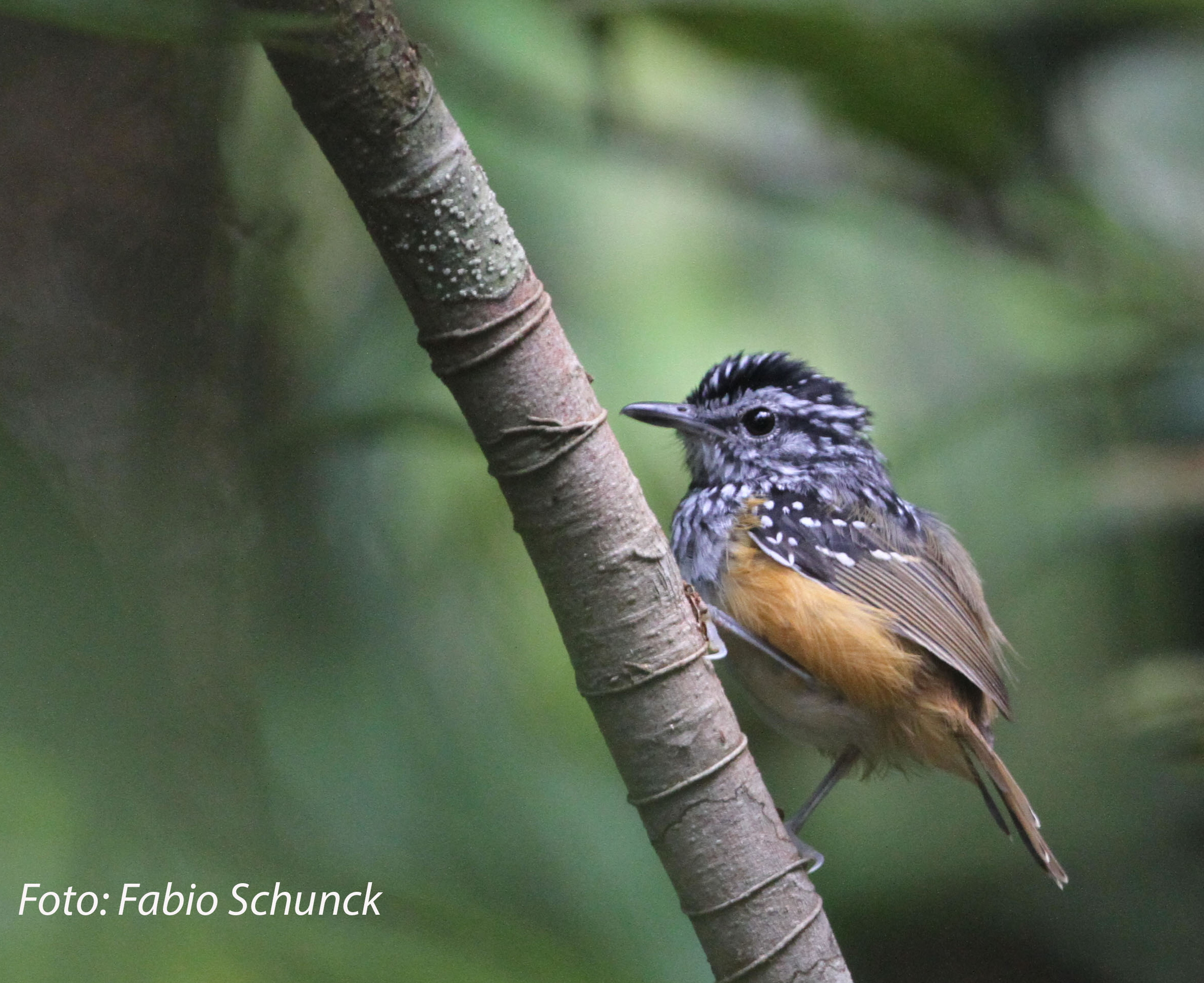 Manicore warbling-antbird at Machadinho d'Oeste - Rondonia - Brazil